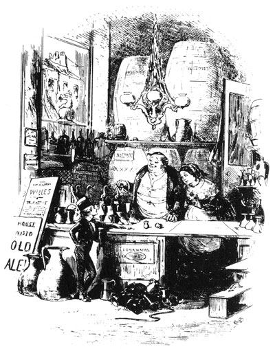 David Copperfield, The magnificent order at the public-house by Phiz